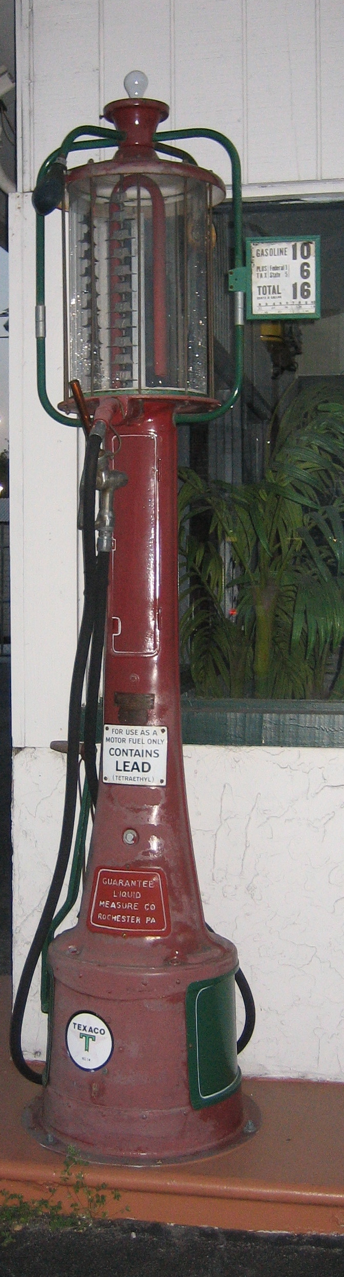 Old style US gas pump seen in Florida